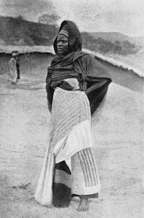 A Hausa woman